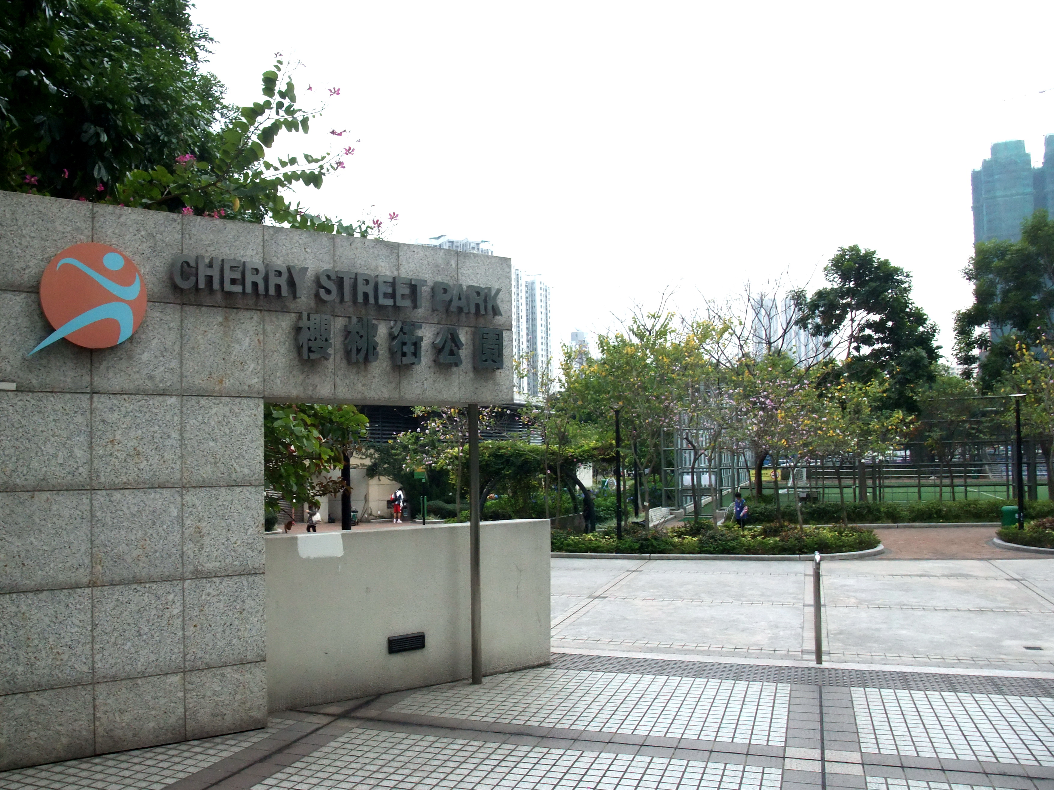 Cherry Street Park (9 Hoi Ting Road, Mong Kok, Kowloon, Hong Kong)